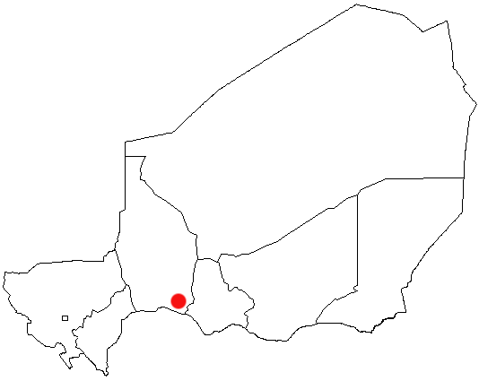 Madaoua, Niger Location Map; created with the GIMP. Made by User:Acntx.